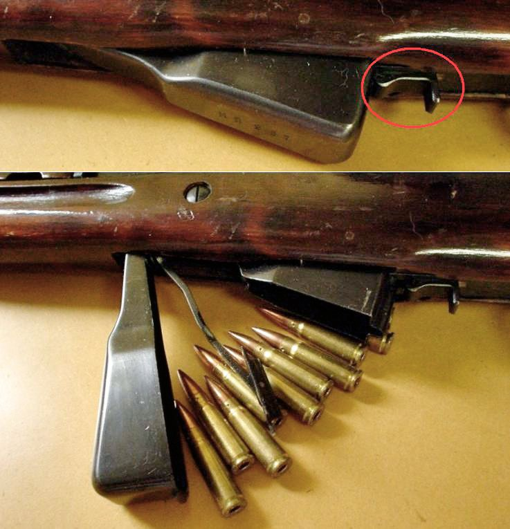 close & Open the magazine bottom of SKS